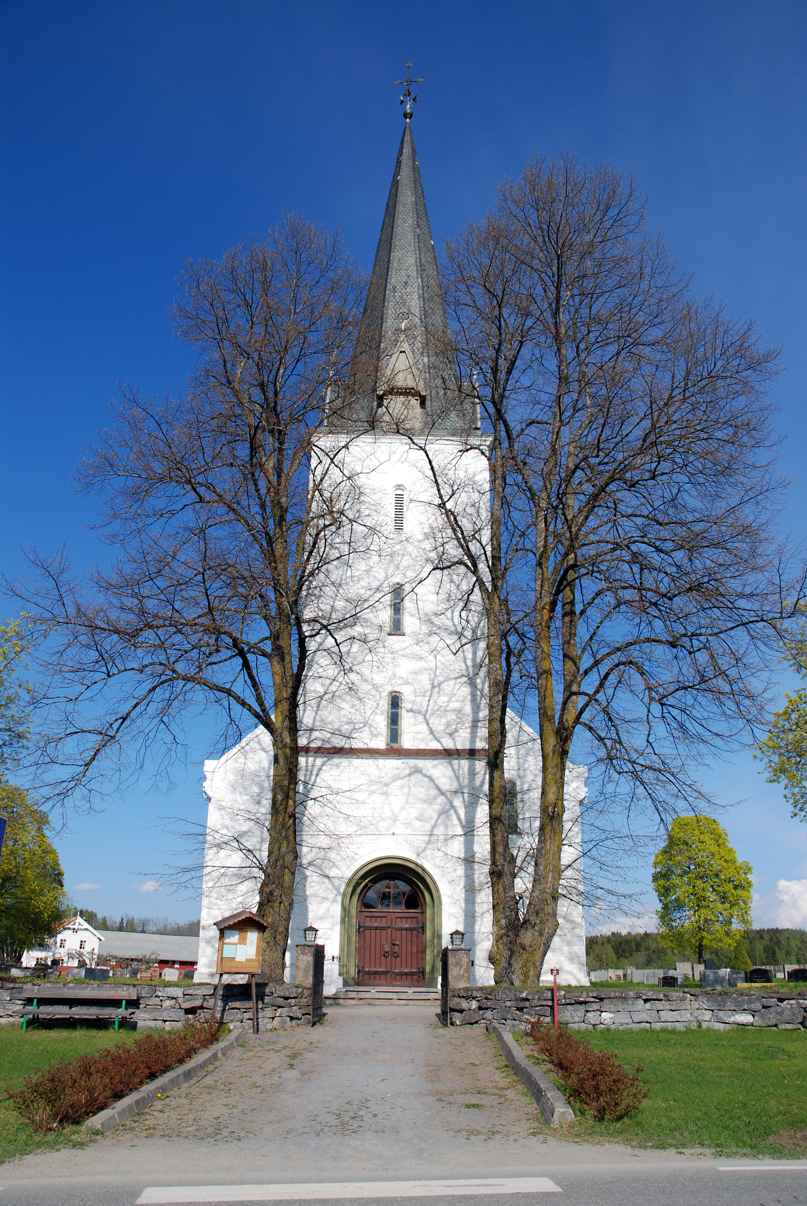 Stavsjø church, in Ringsaker, Hedmark, Norway.